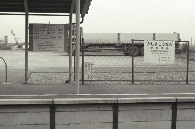 Kashima Seaside Railway Kashima-Konan Station platform